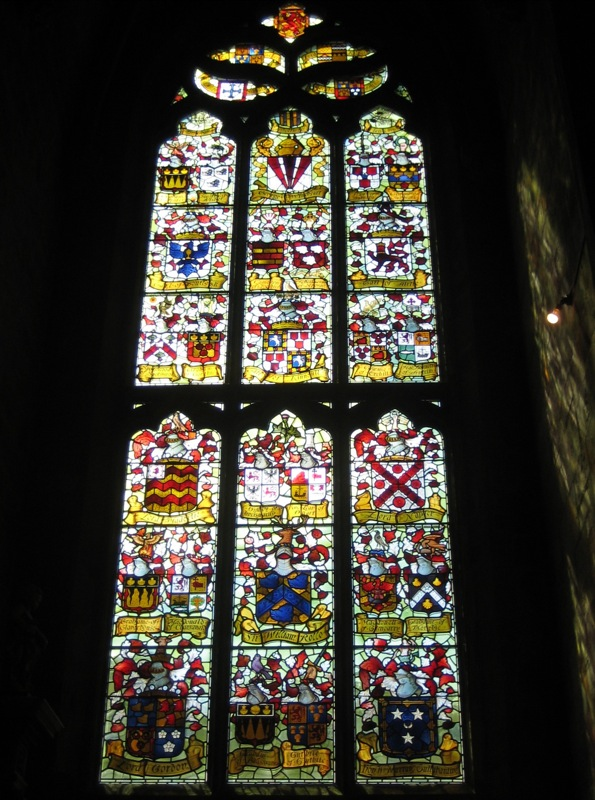 St Giles' Cathedral in Edinburgh